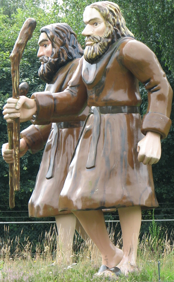 Ellert and Brammert at the open-air museum in Schoonoord